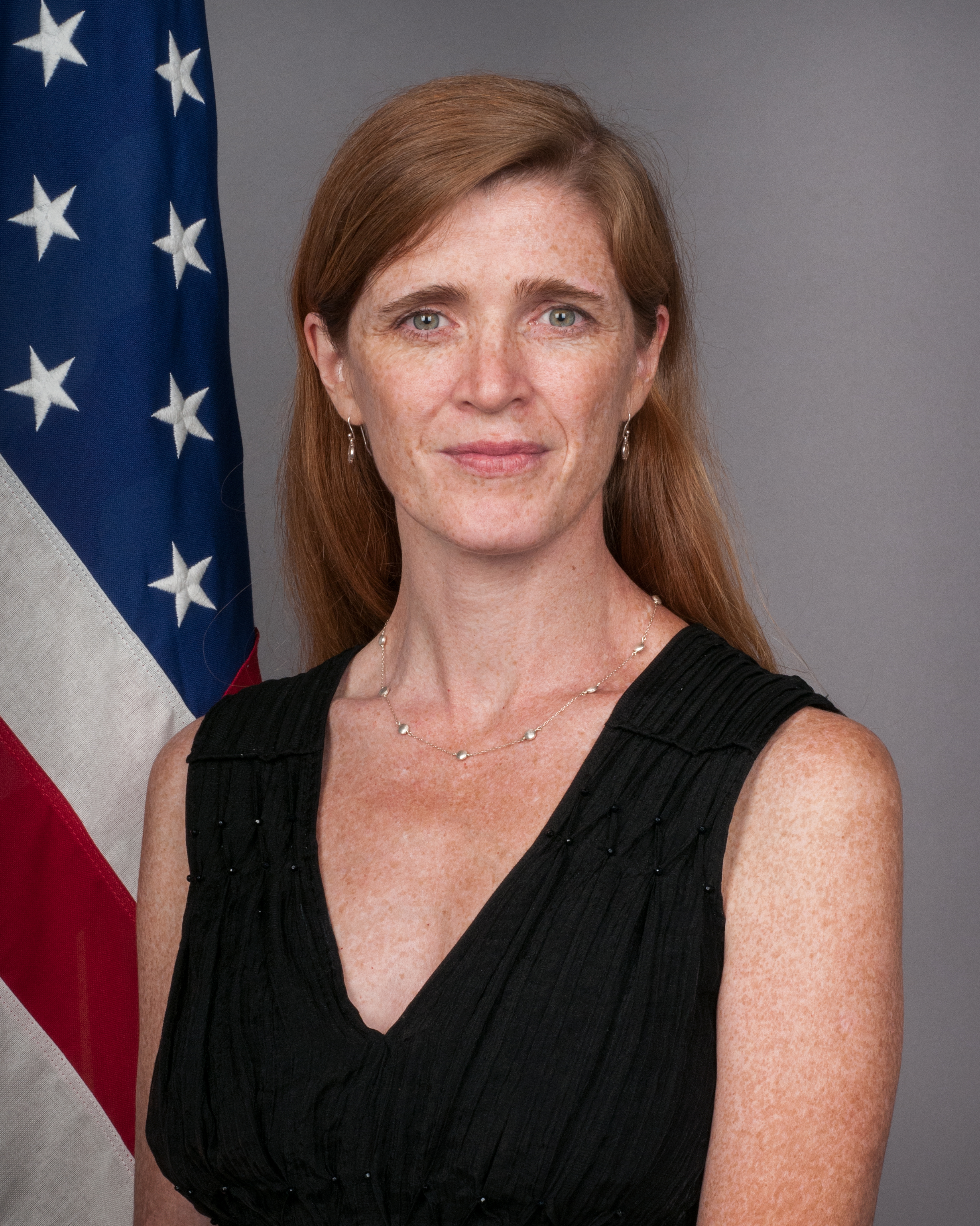 Official photo of United States Ambassador to the United Nations Samantha Power.